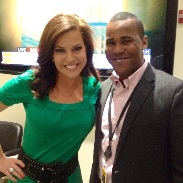 Sampson Nanton and News Anchor Robin Meade in Atlanta, March 2014.